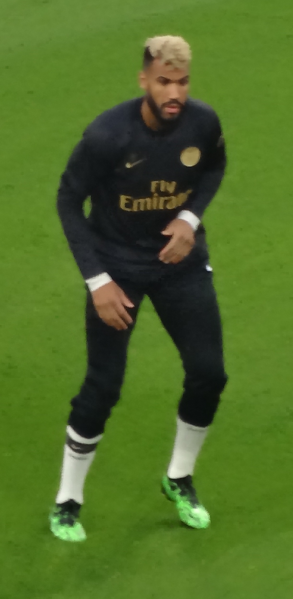 Eric Choupo Moting (PSG)